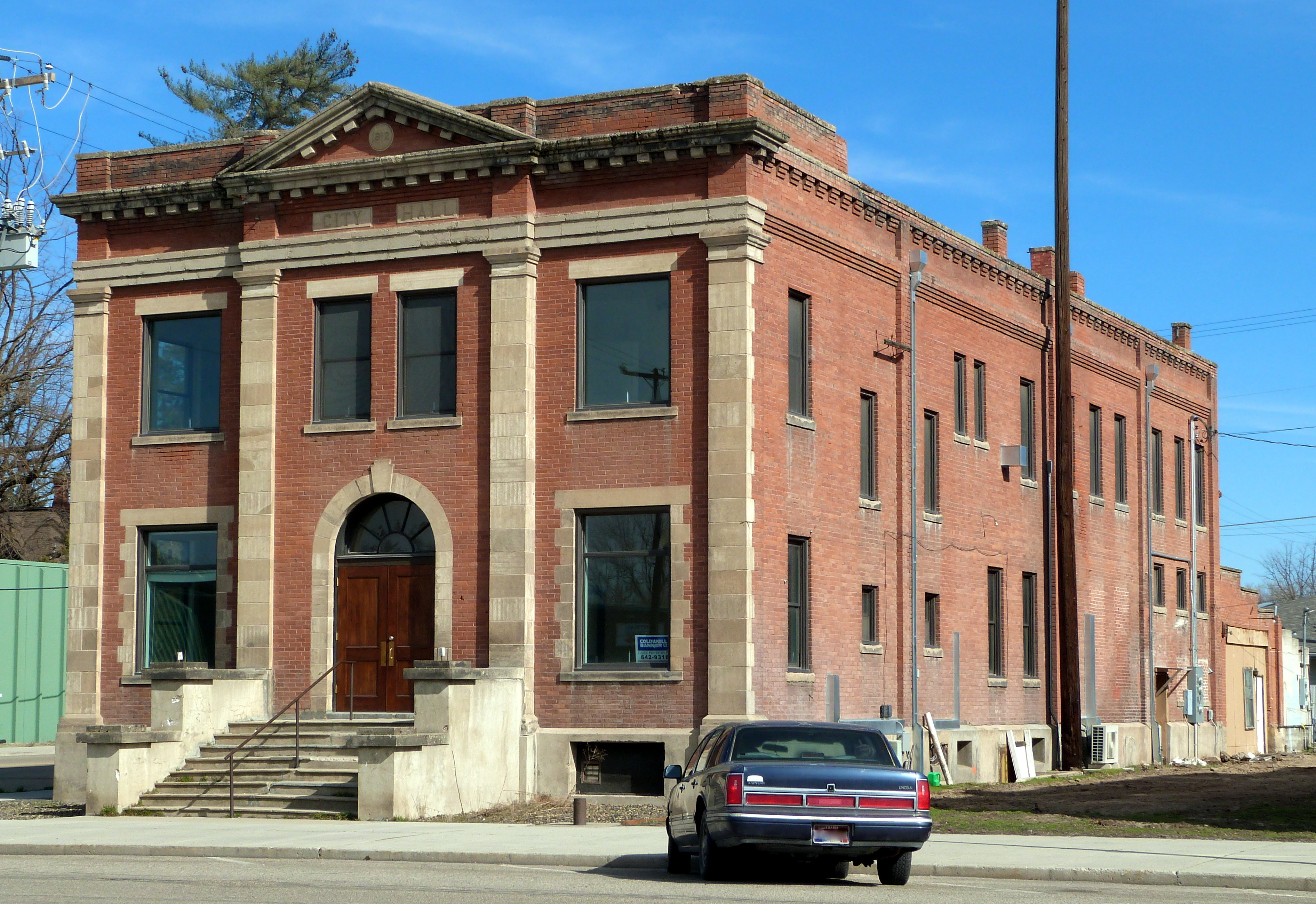 The historic Payette City Hall and Courthouse (built 1912), located at the intersection of 3rd Avenue North and 8th Street in Payette, Idaho, United States, is listed on the US National Register of Historic Places. It no longer serves its historic function.